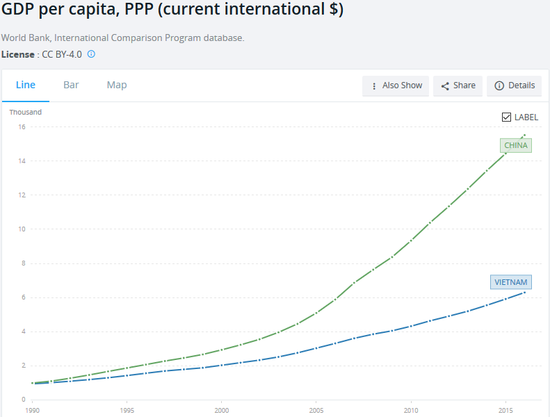 GDP per capita Vietnam - China